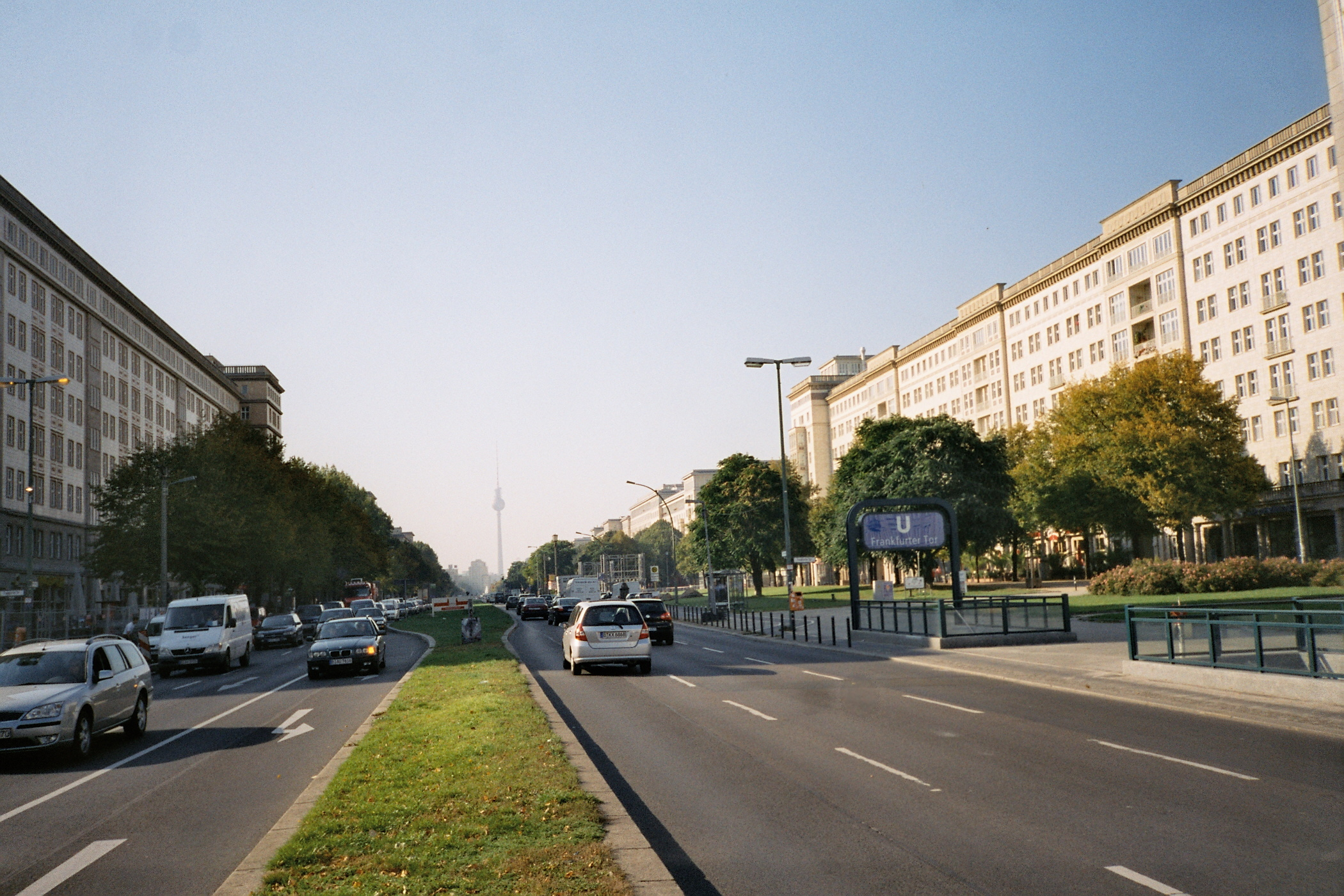 Buildings of Block F on either side of Karl-Marx-Allee at Frankfurter Tor, in Berlin. Constructed in the 1950's by architects Karl Souradny, Heinz Auspurg, Werner Burghardt.